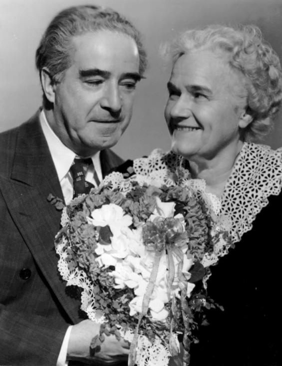 Publicity photo from the radio program One Man's Family. Pictured are J. Anthony Smythe (Henry Barbour) and Minetta Ellen (Fanny Barbour).